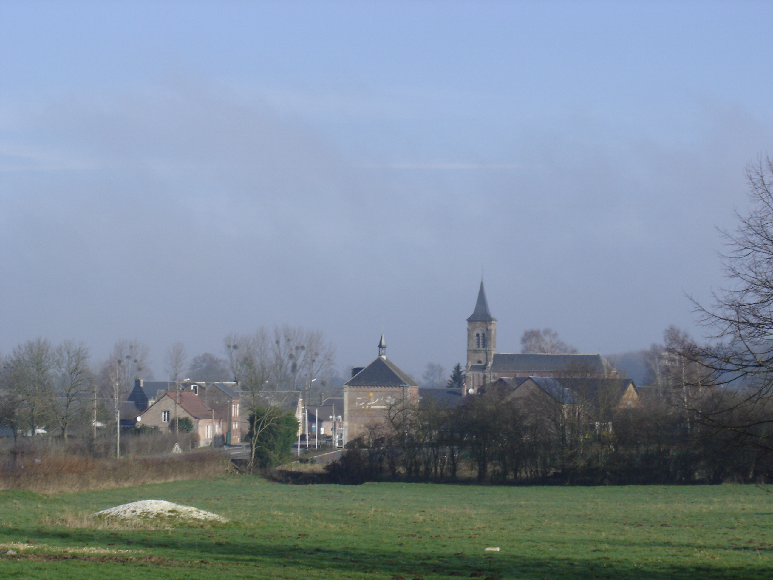 La Groise Overall view of the village with church